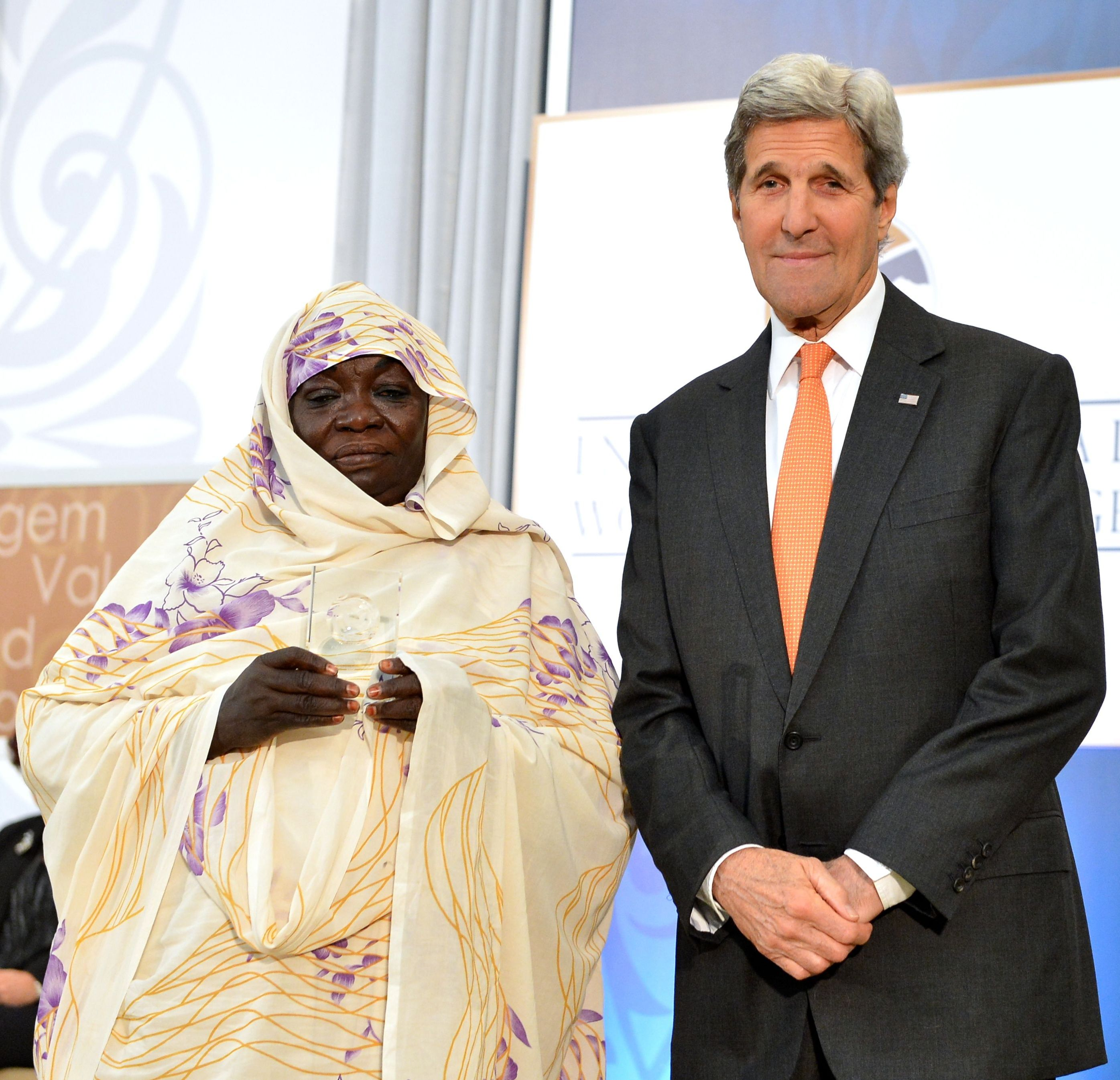 International Women of Courage Awards 2016